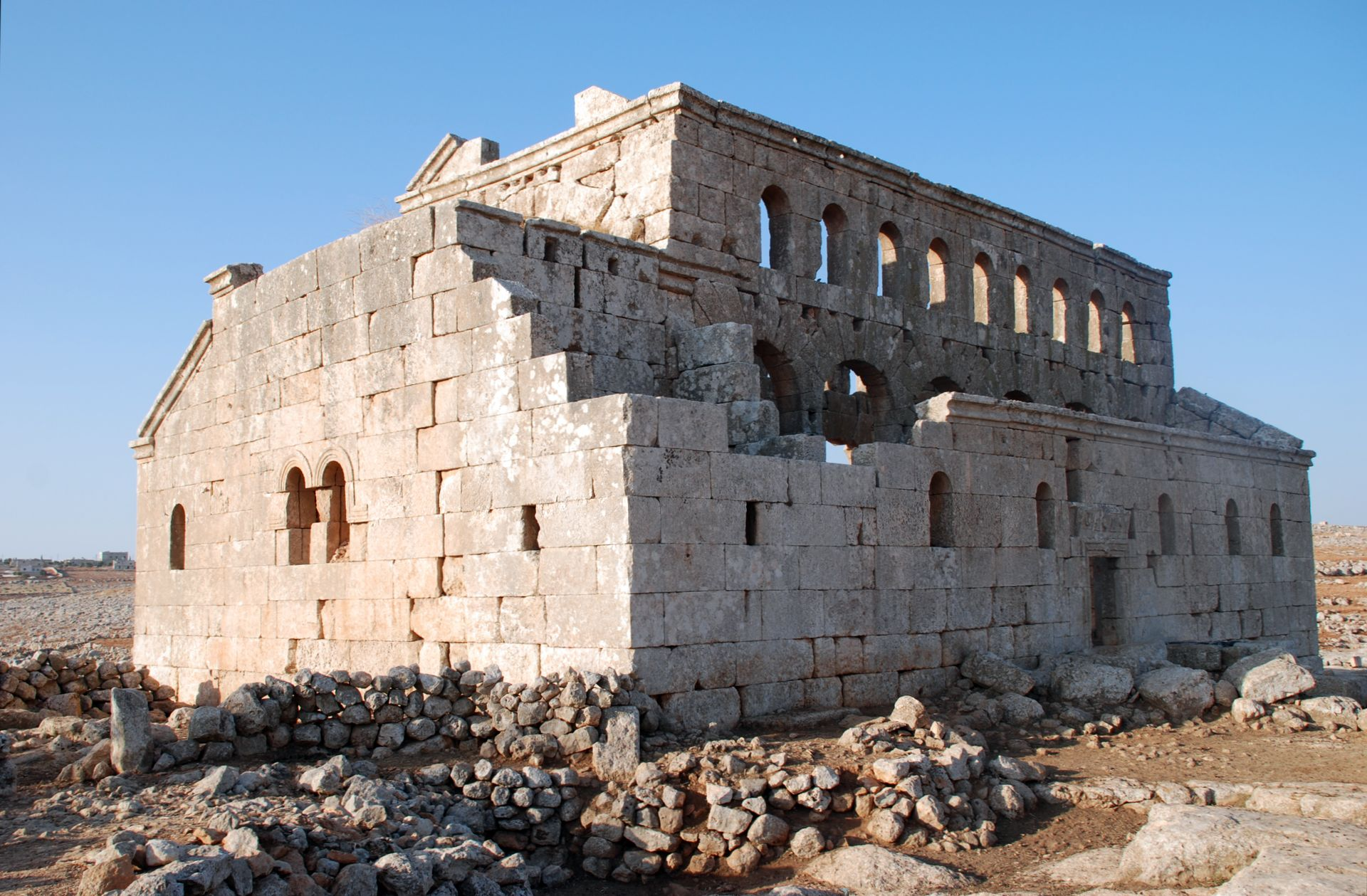 Mushabbak, near Dar Taizzah (Daret Azzeh), dead cities, Syria. From northeast